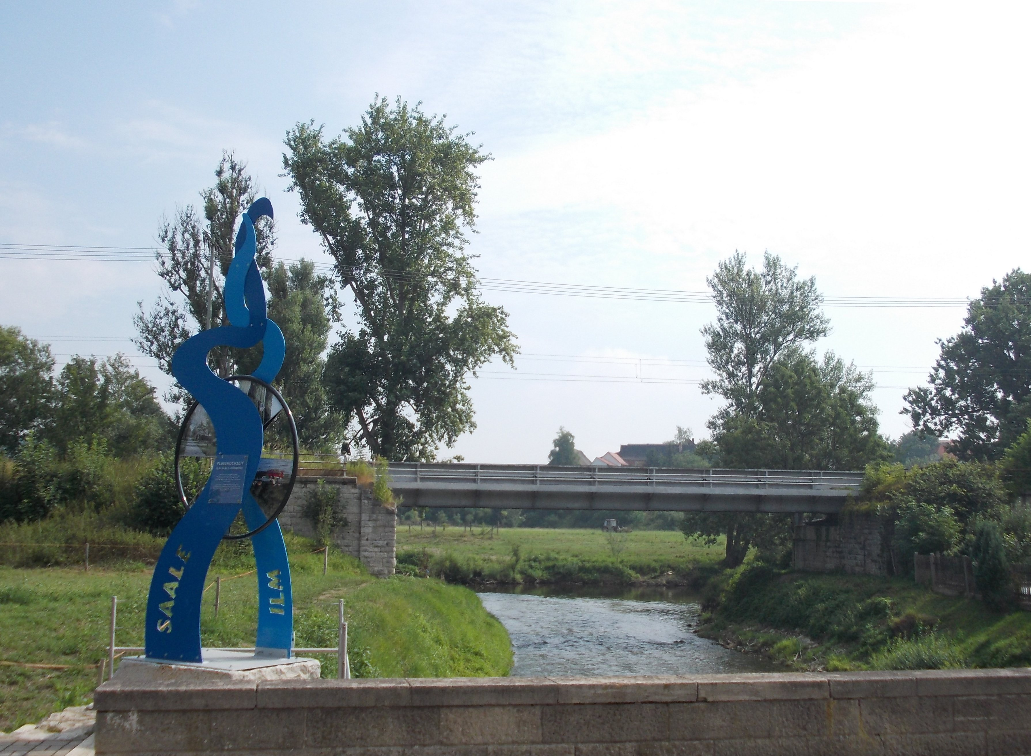 The Ilm flowing into the Saale at Grossheringen (district of Weimarer Land, Thuringia), with railway bridge